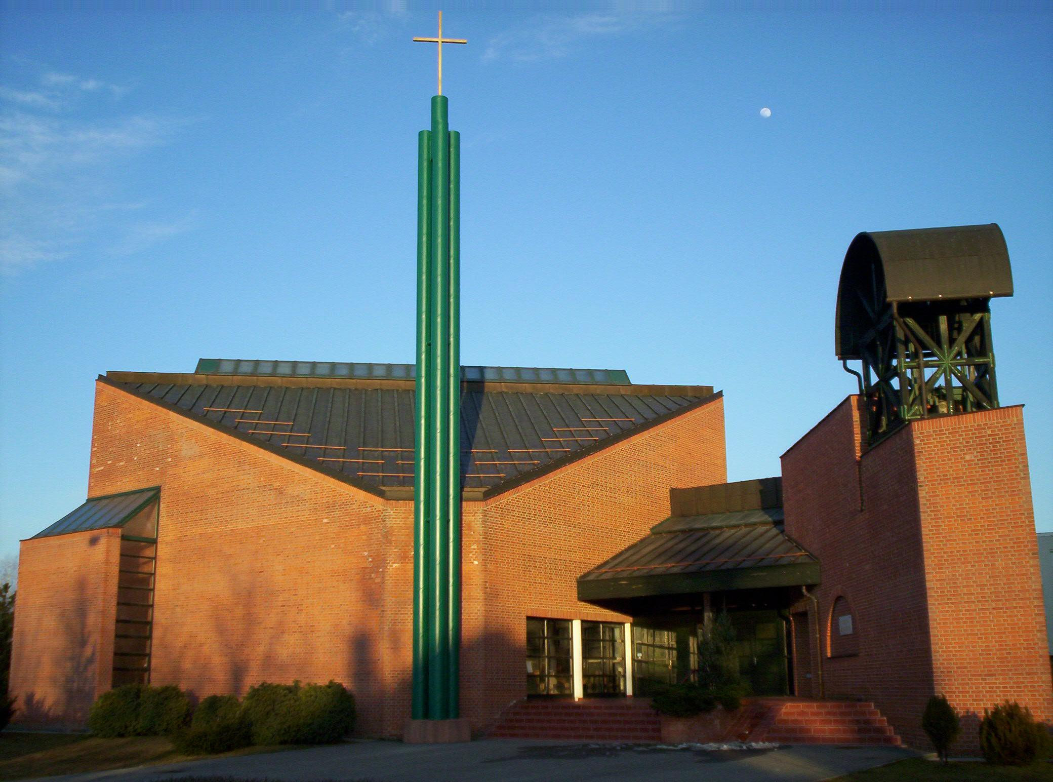 Description: Mindszenty József Memorial Church, Veszprém